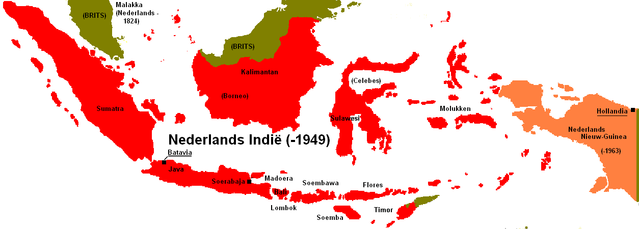 Map of the Dutch East Indies showing the full extent of its boundaries in the early 20th century.